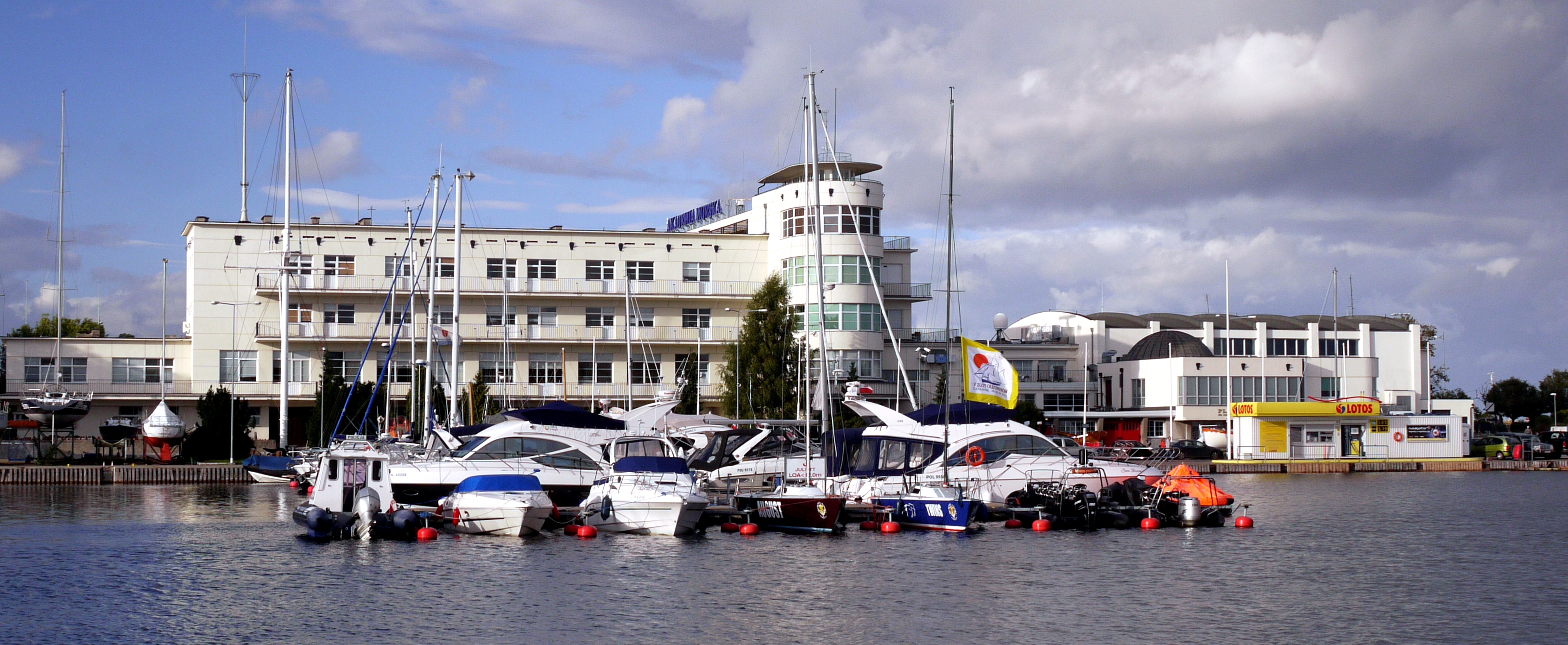 Gdynia Maritime University in Poland.